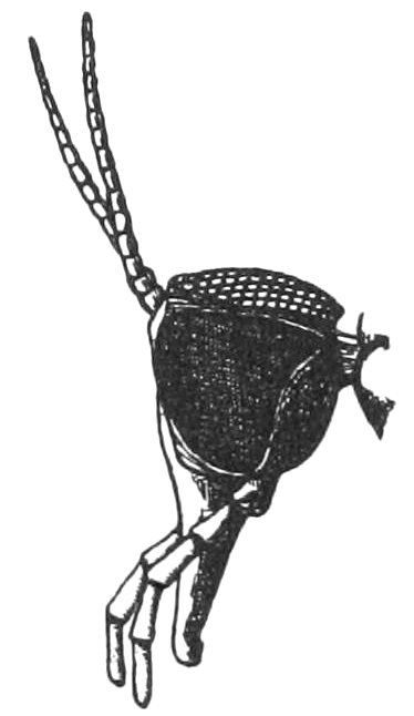 Head of Blepharicera fasciata (Westwood 1842)